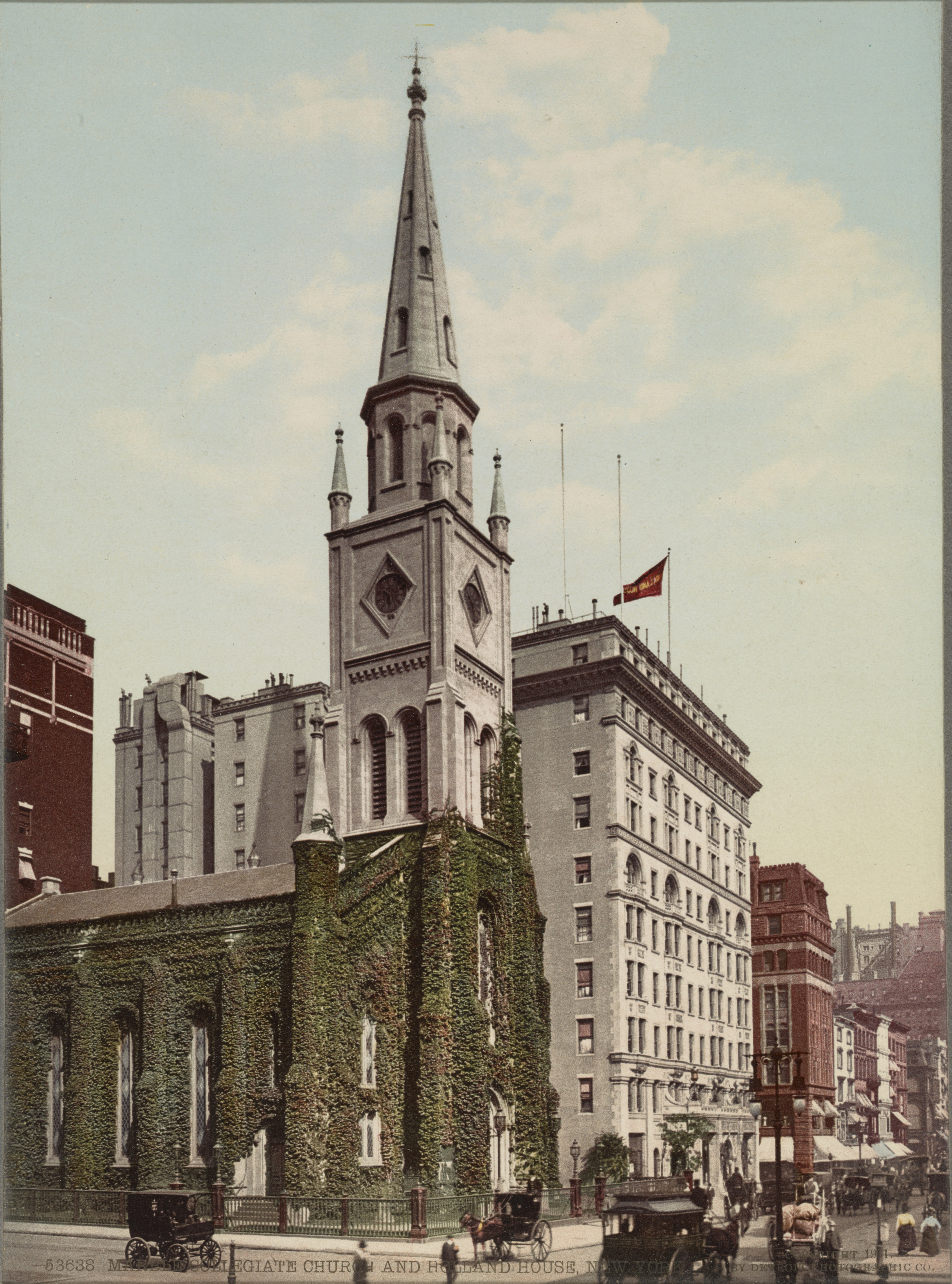 A photochrom postcard published by the Detroit Photographic Company.